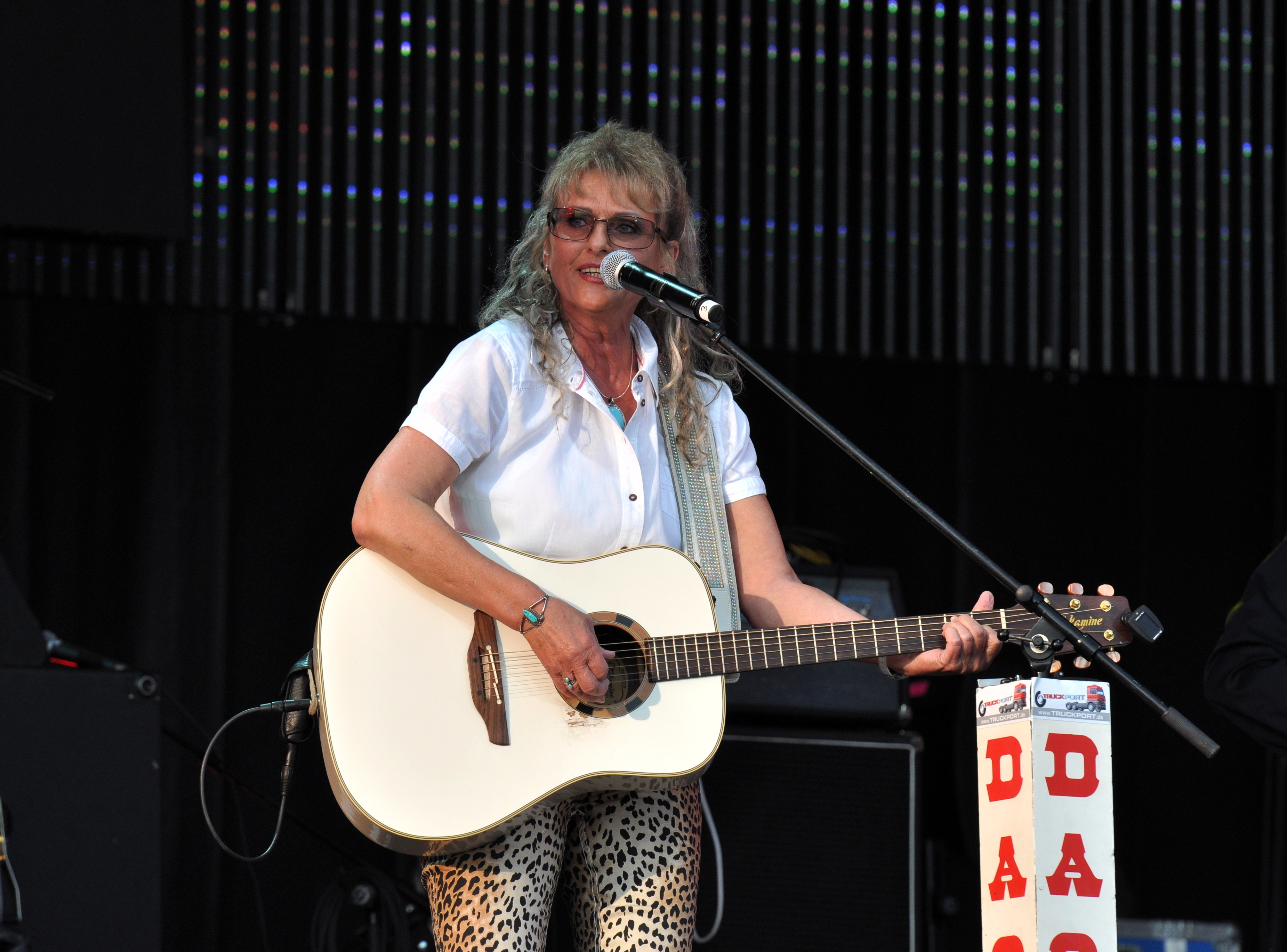 Dagmar (Lay D.) at the International Truck Grand Prix Country Festival 2013, Nürburgring, Germany